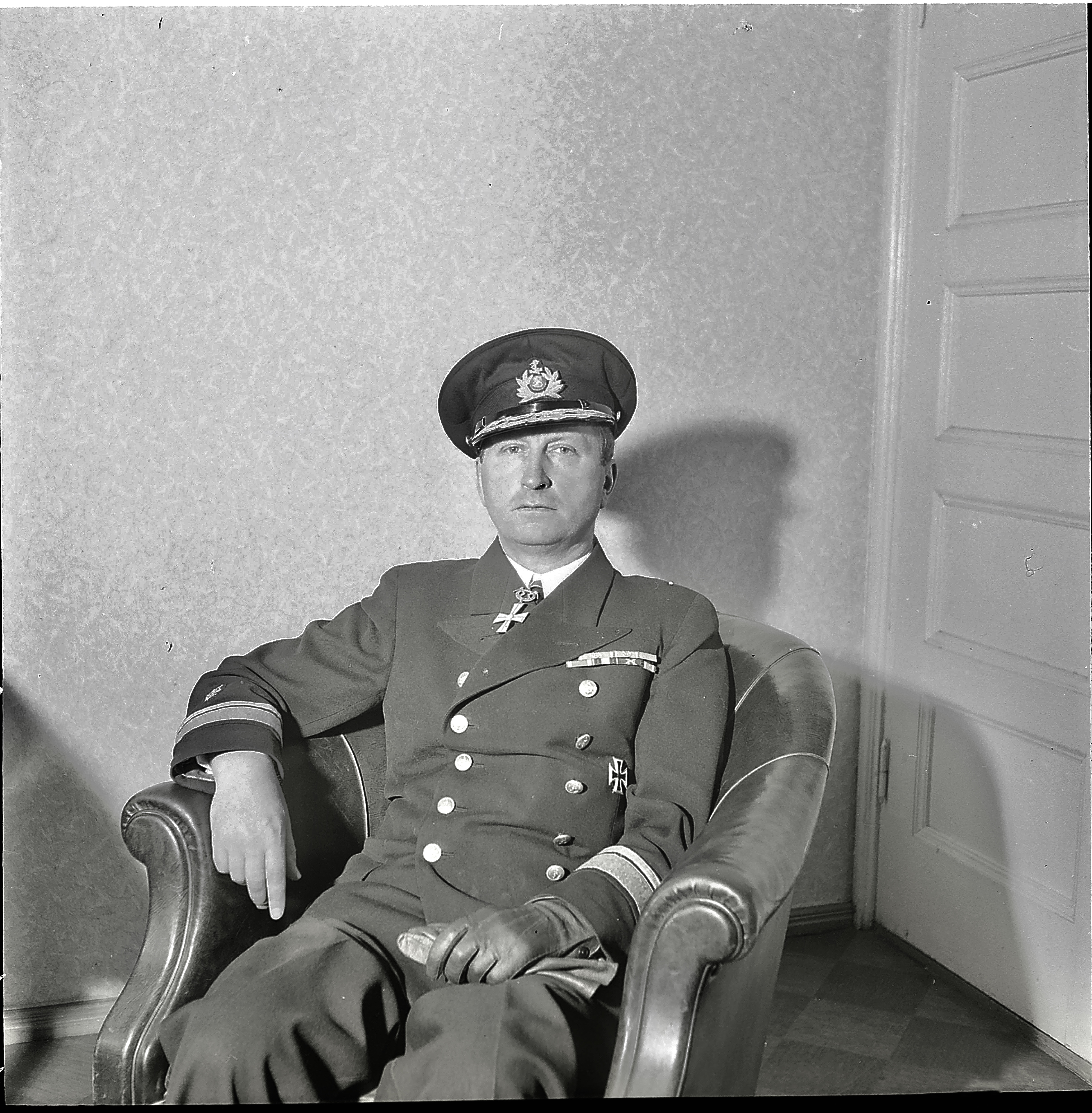 Admiral Svante Sundman